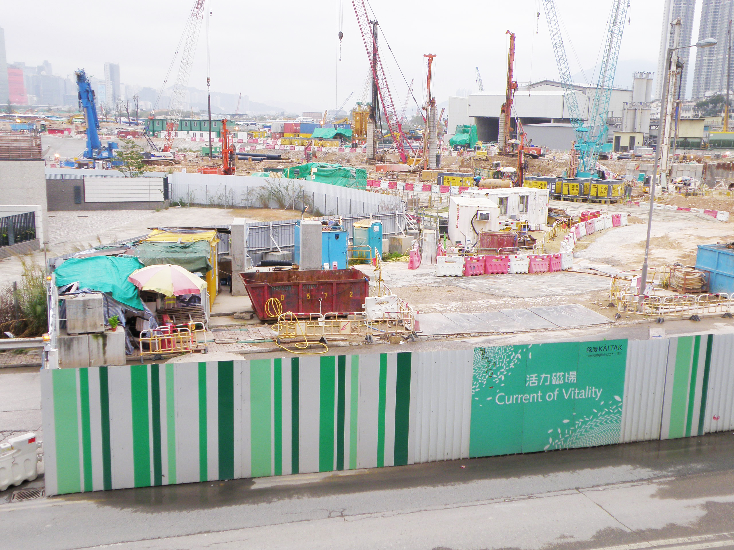 Sung Wong Toi Station in Kai Tak, Hong Kong.